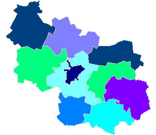 Brodnica County